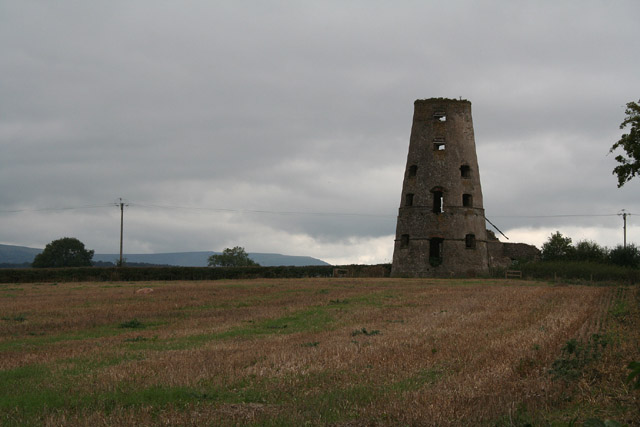 Gwehelog Fawr: Llancayo windmill. A tower windmill and a local landmark, visible from the B4598 Usk-Abergavenny road. The mill gearing and sails were destroyed in a fire in 1825.